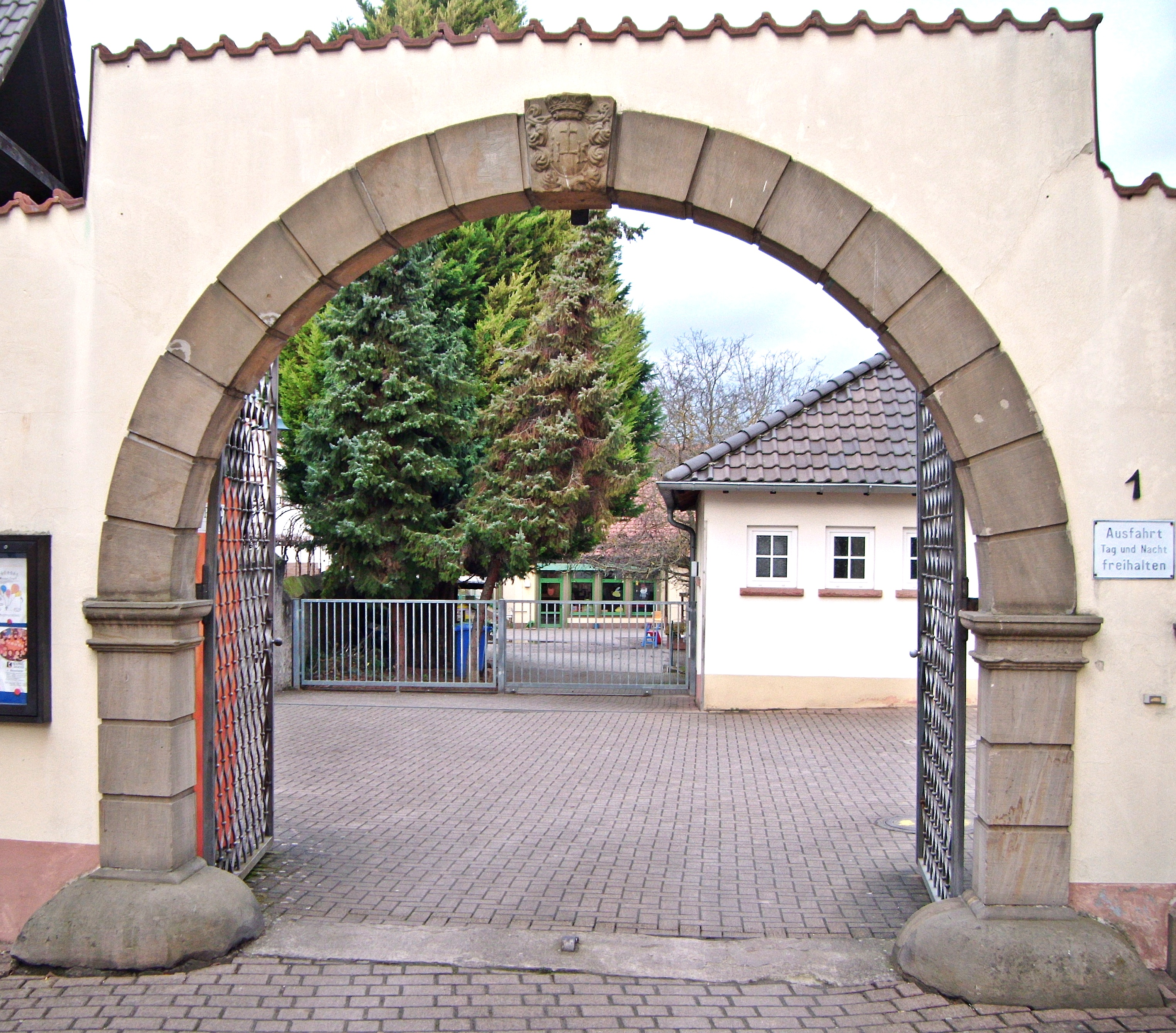 Torbogen des Jesuitenkollegs Speyer (1714), seit 1961 an der kath. Kirche St. Peter, Grünstadt